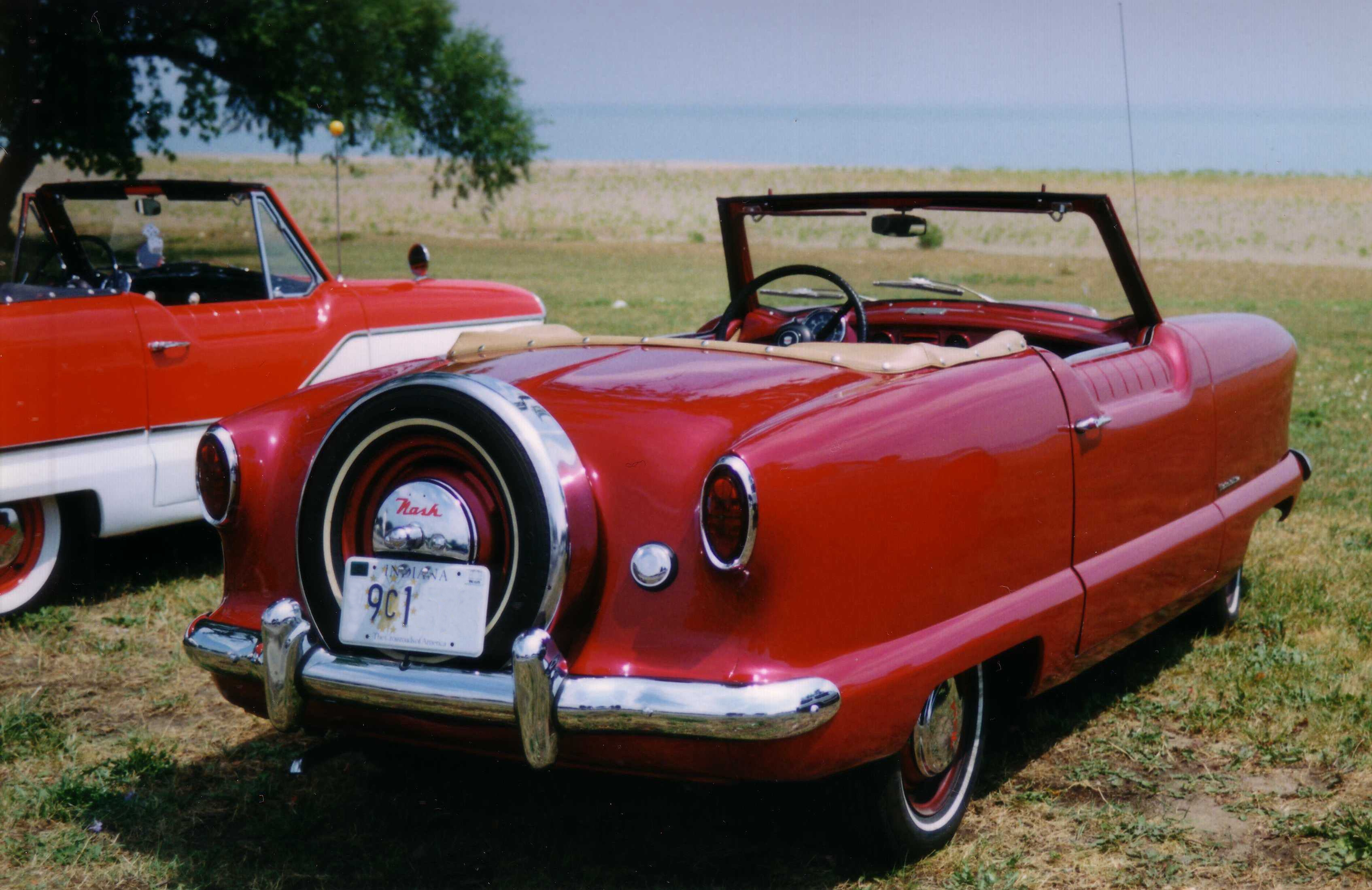 Metropolitan convertible finished in all red. Photograph taken in Kenosha, Wisconsin at the car show "100th Anniversary meet Rambler (1902-2002)" that was held in the park overlooking Lake Michigan.